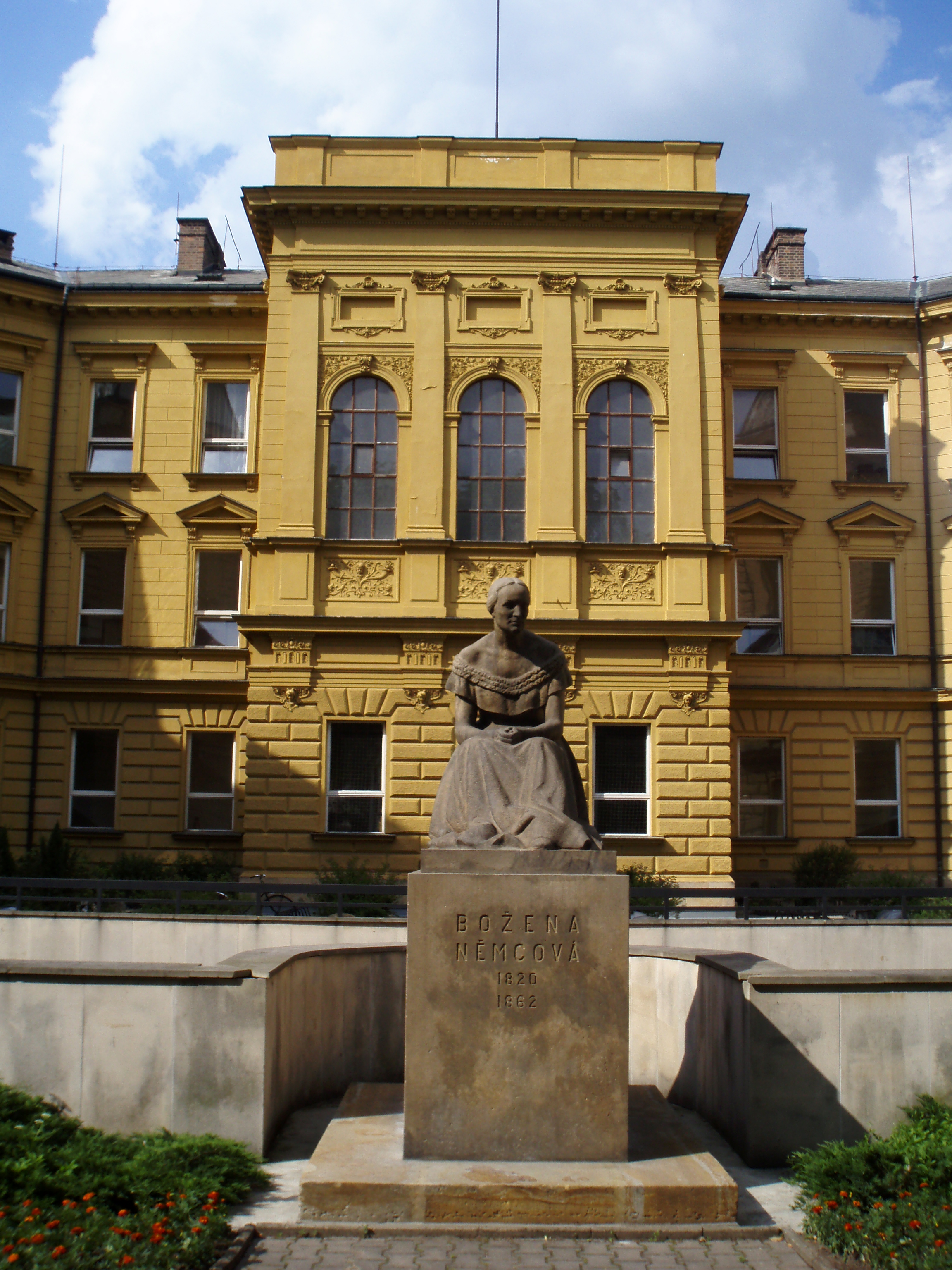 Statue of Božena Němcová in Hradec Králové by Josef Škoda (1940)